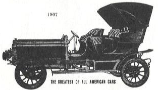 A picture of a 1907 Kansas City Six Cylinder Touring Car from a print advertisement.